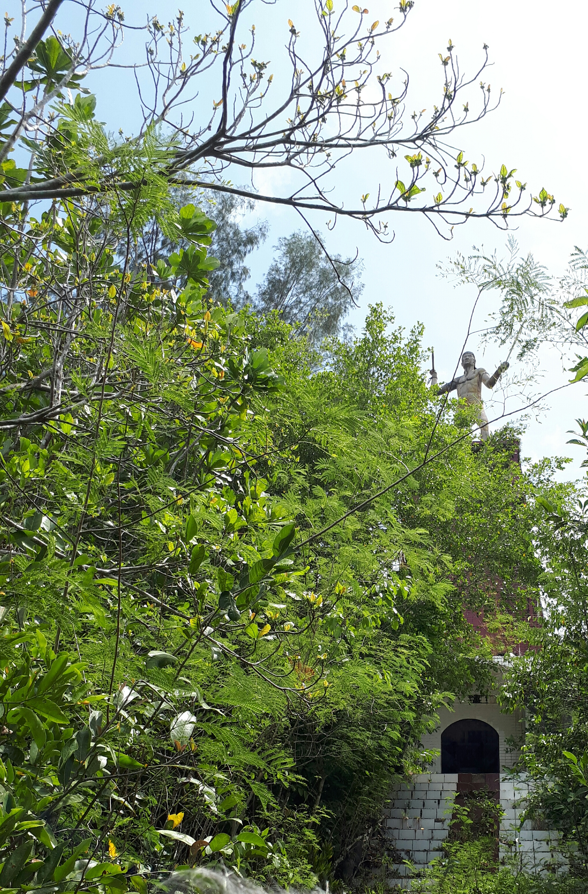 Merupakan foto Patung Krapangit Gewab di Pulau Tubir Seram, Kabupaten Fakfak, Papua Barat.